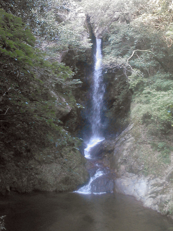 Medaki Waterfall at Kounotaki(Rainbow-Waterfall),Komino,Miki-town,Kitagun,Kagawa,Japan.